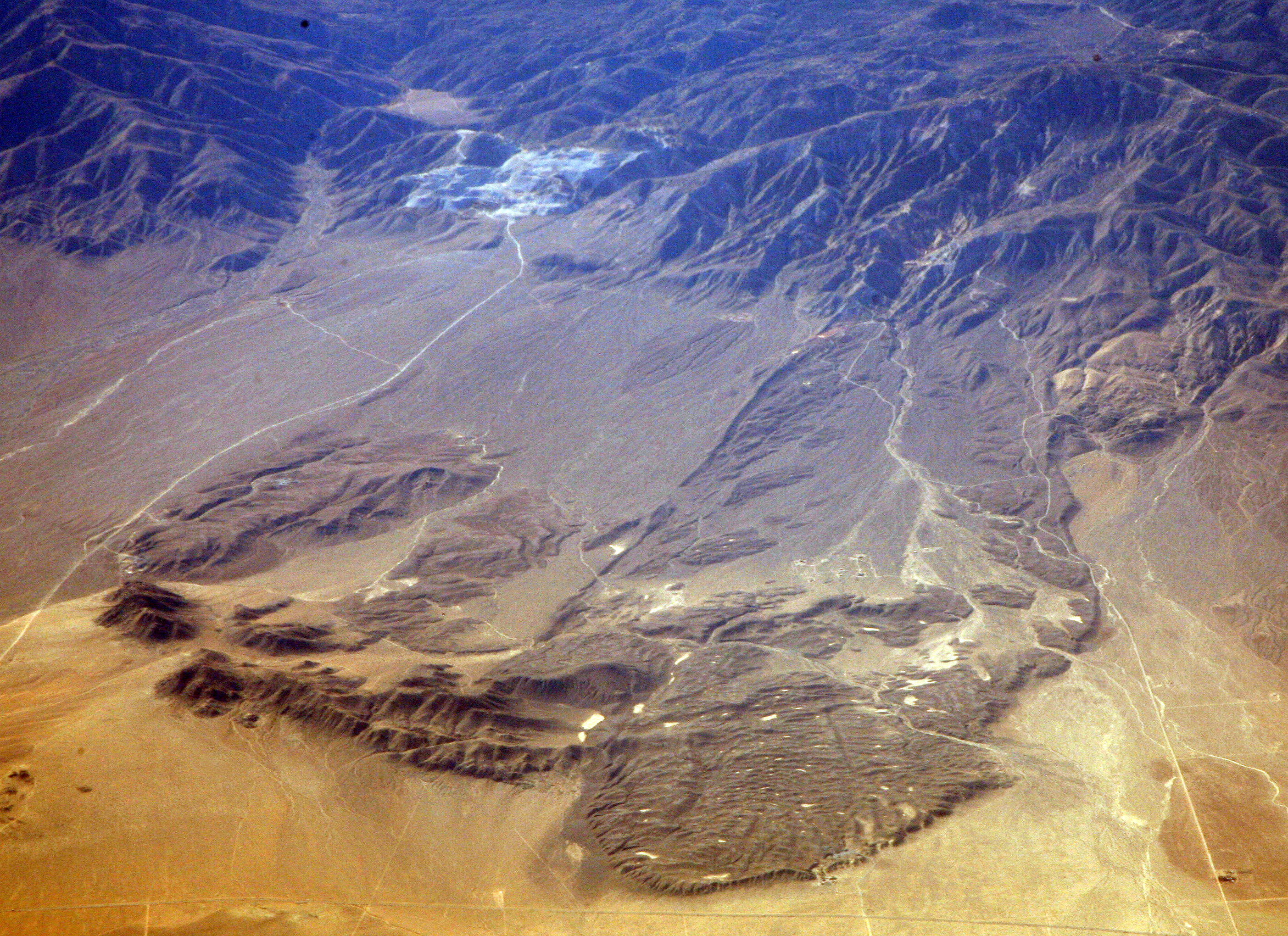 The Blackhawk Slide : a mammoth landslide that came off of Blackhawk Mountain, on the north side of the San Bernardino Mountains, an estimated 17,000 years ago, which is recent in geologic time. It is spread across the Lucerne Valley in Southern California.